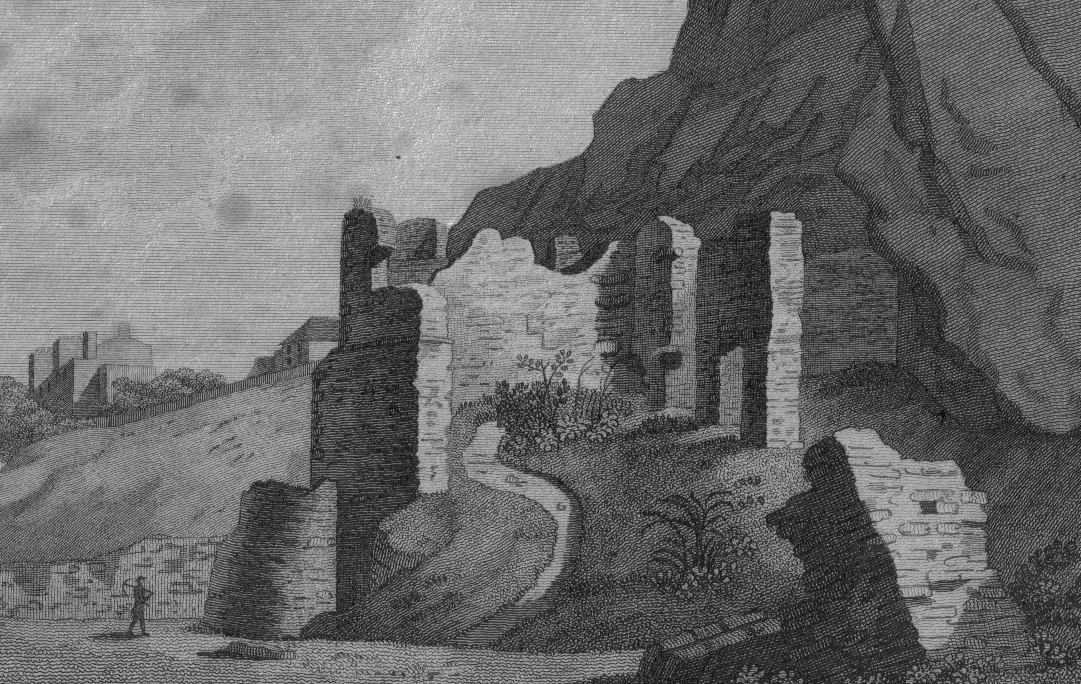 The Well-House at Edinburgh Castle, Scotland in 1789